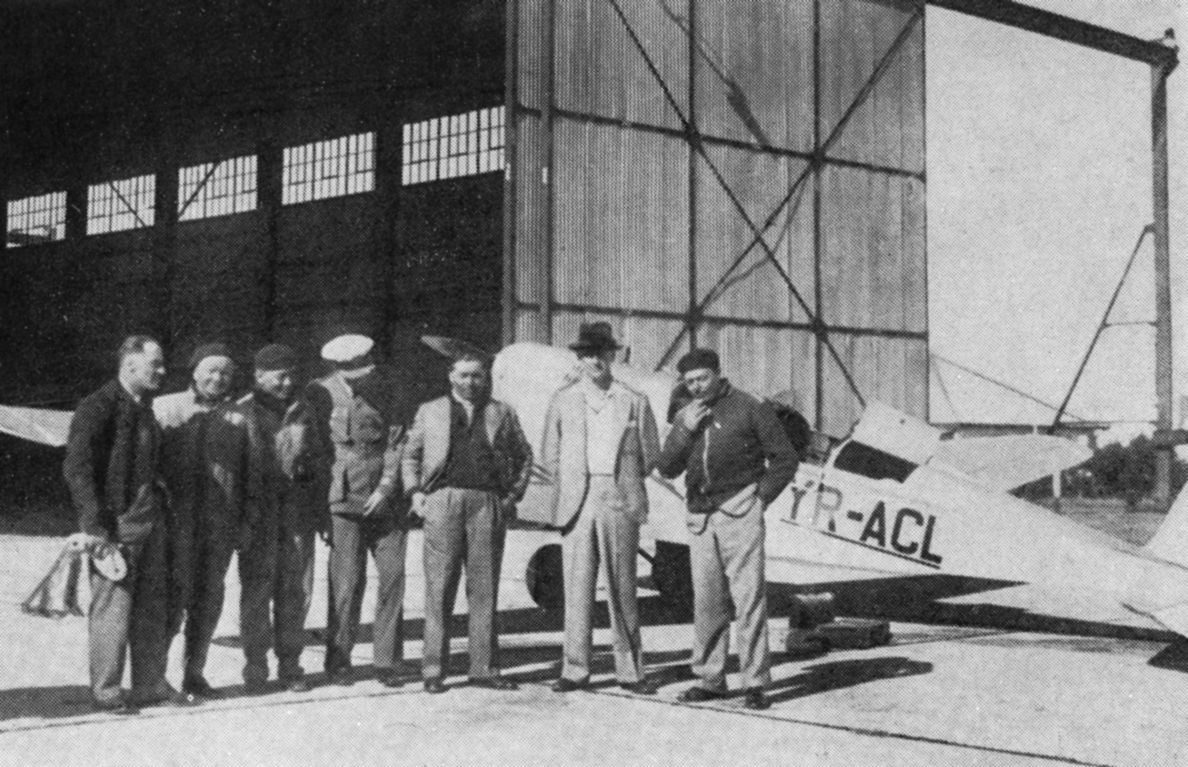 Anton Stengher, Gheorghe Olteanu, Gheorghe Jienescu, cpt. Fisher – airport chief, Alexandru Cernescu, George Davidescu, Mihail Pantazi, Kimberley Airport, 1935